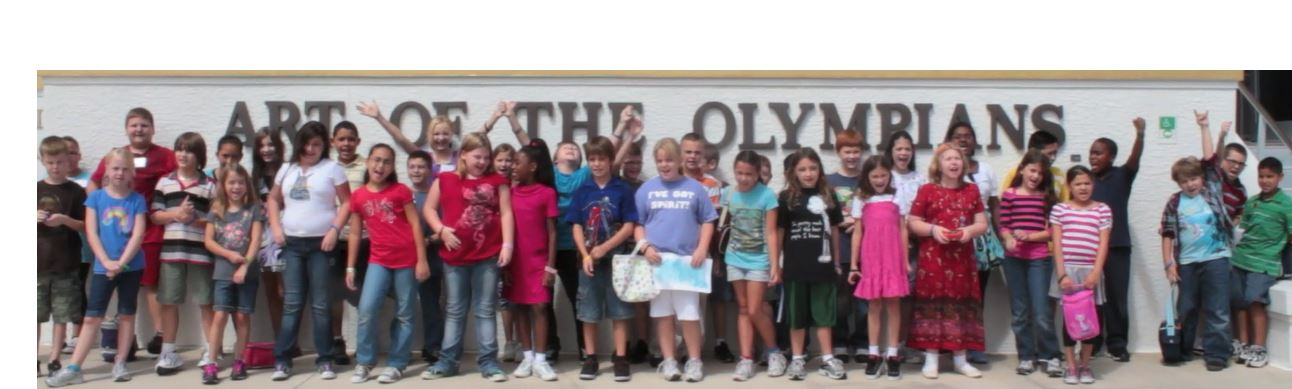 School children pose after a AOTO workshop.